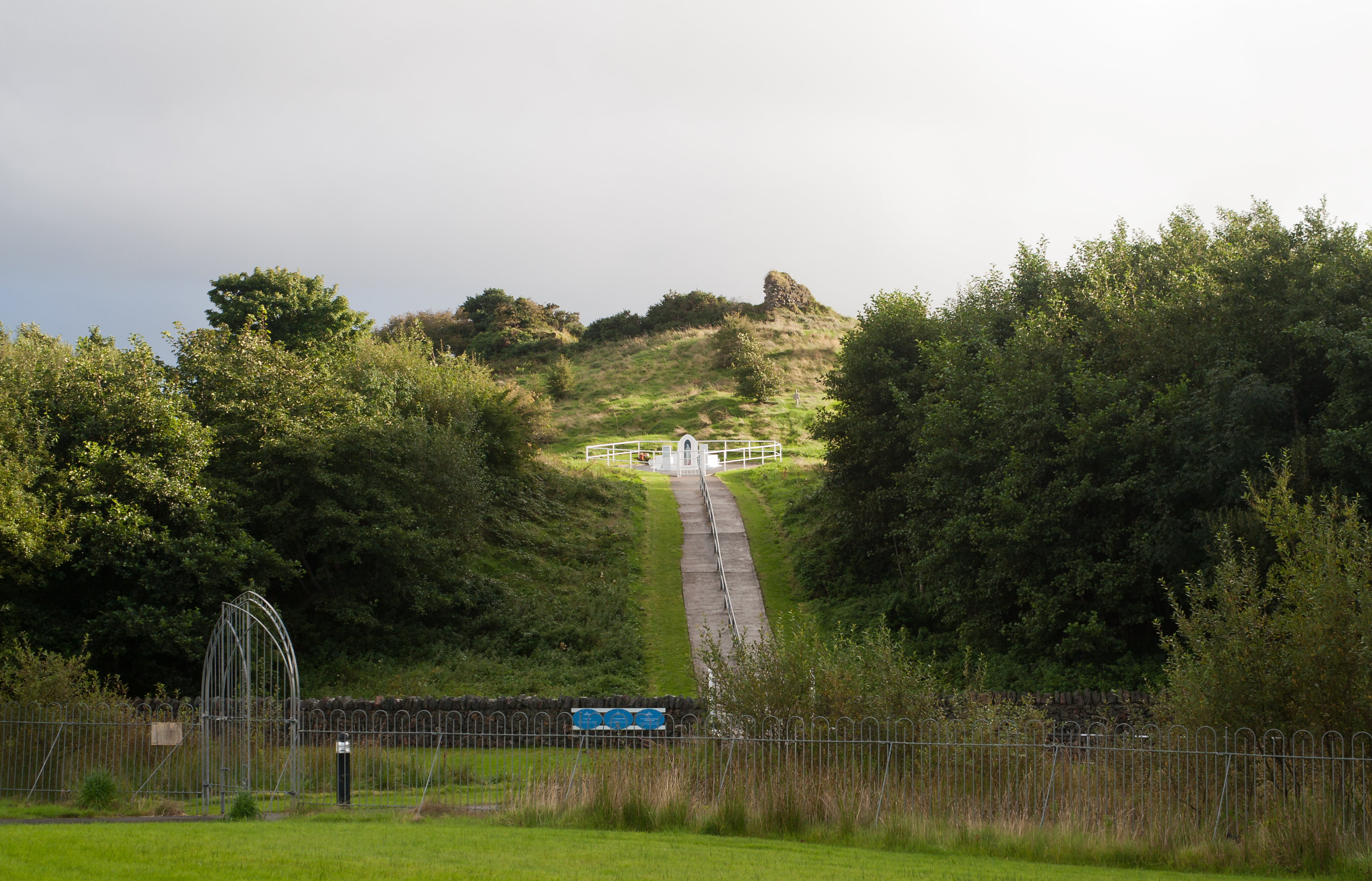 St. Catherine's Well and Cat Castle on the hilltop, as seen from the associated parking lot.